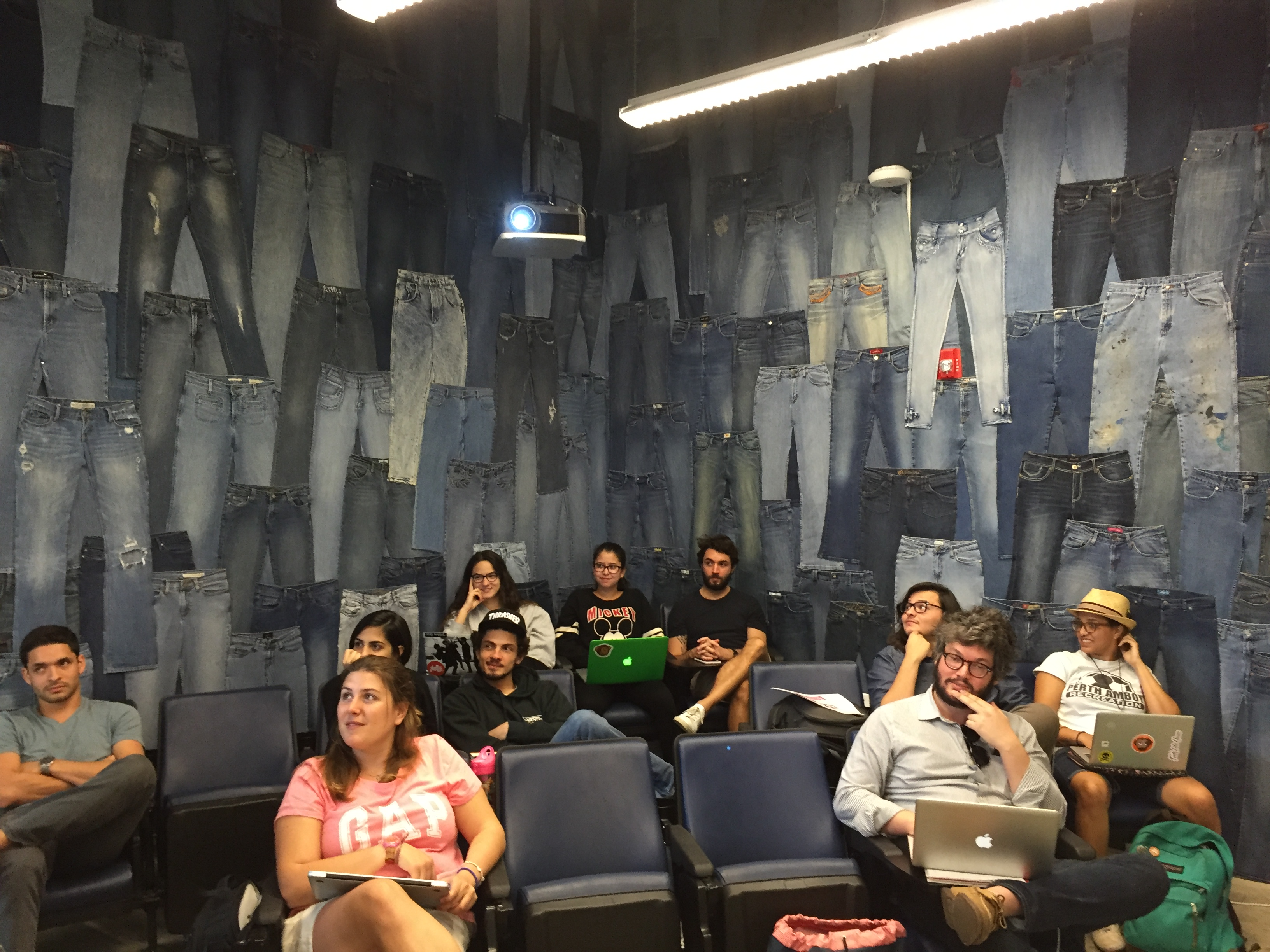 Classroom area in Miami Ad School in Miami, FL featuring walls covered in bluejeans.